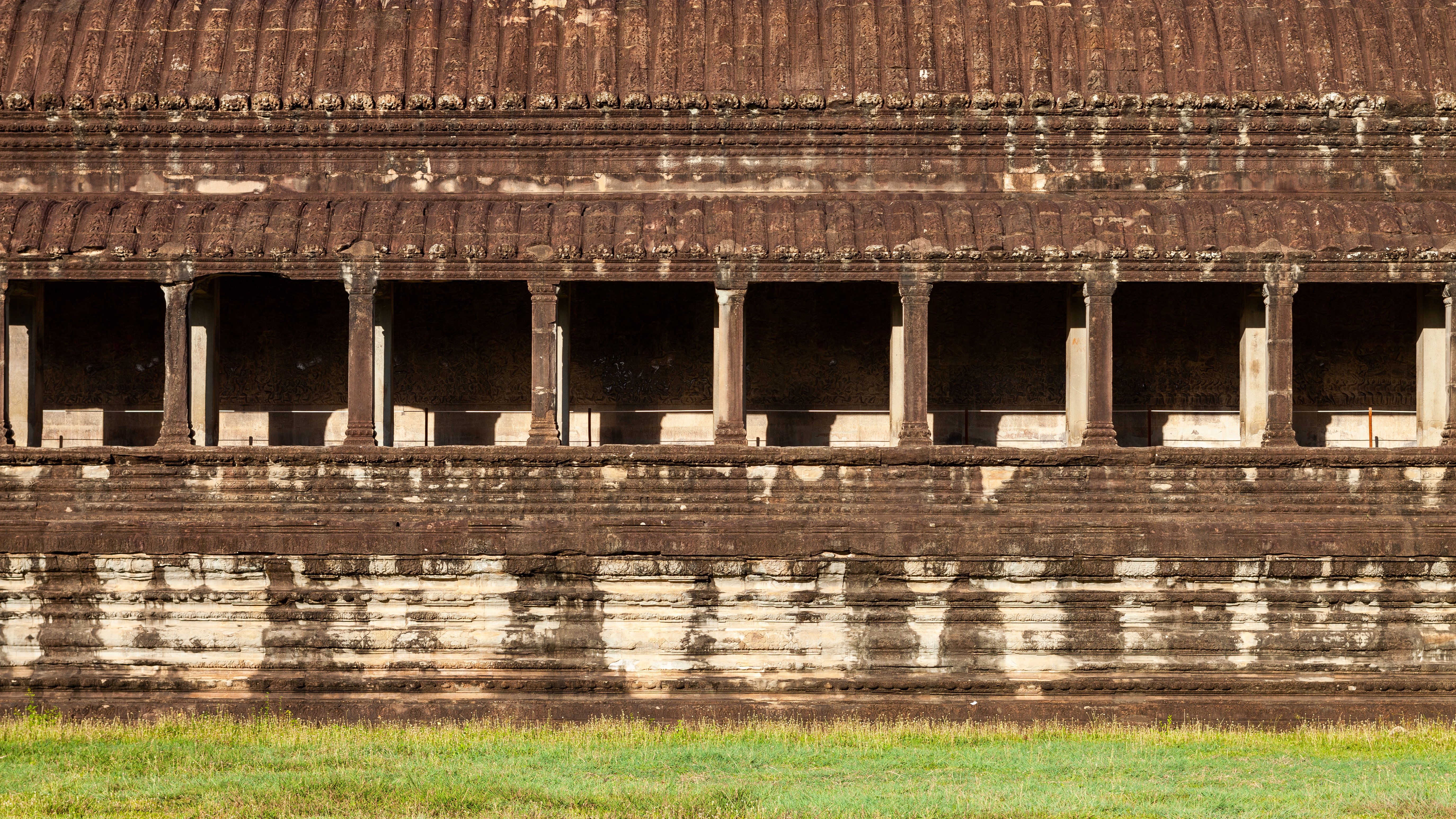 The elevation view of external gallery of main temple, Angkor Wat.